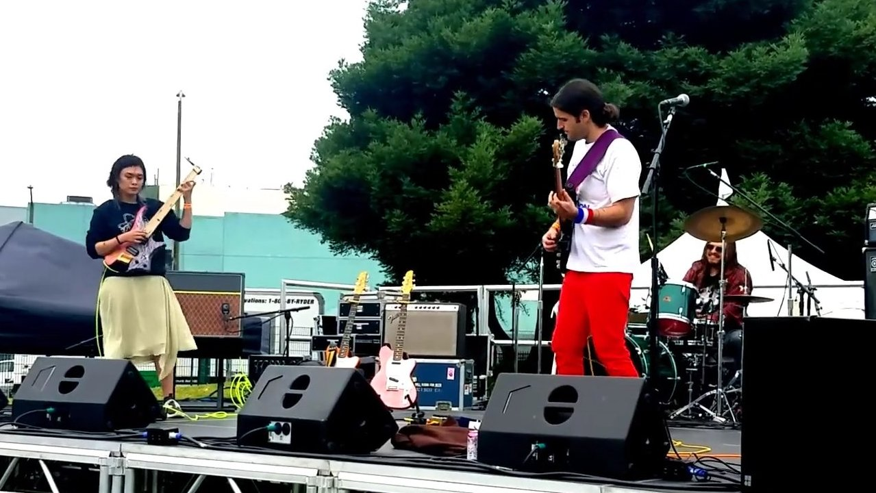 Covet performing at Phono Del Sol Festival, 15 June 2019